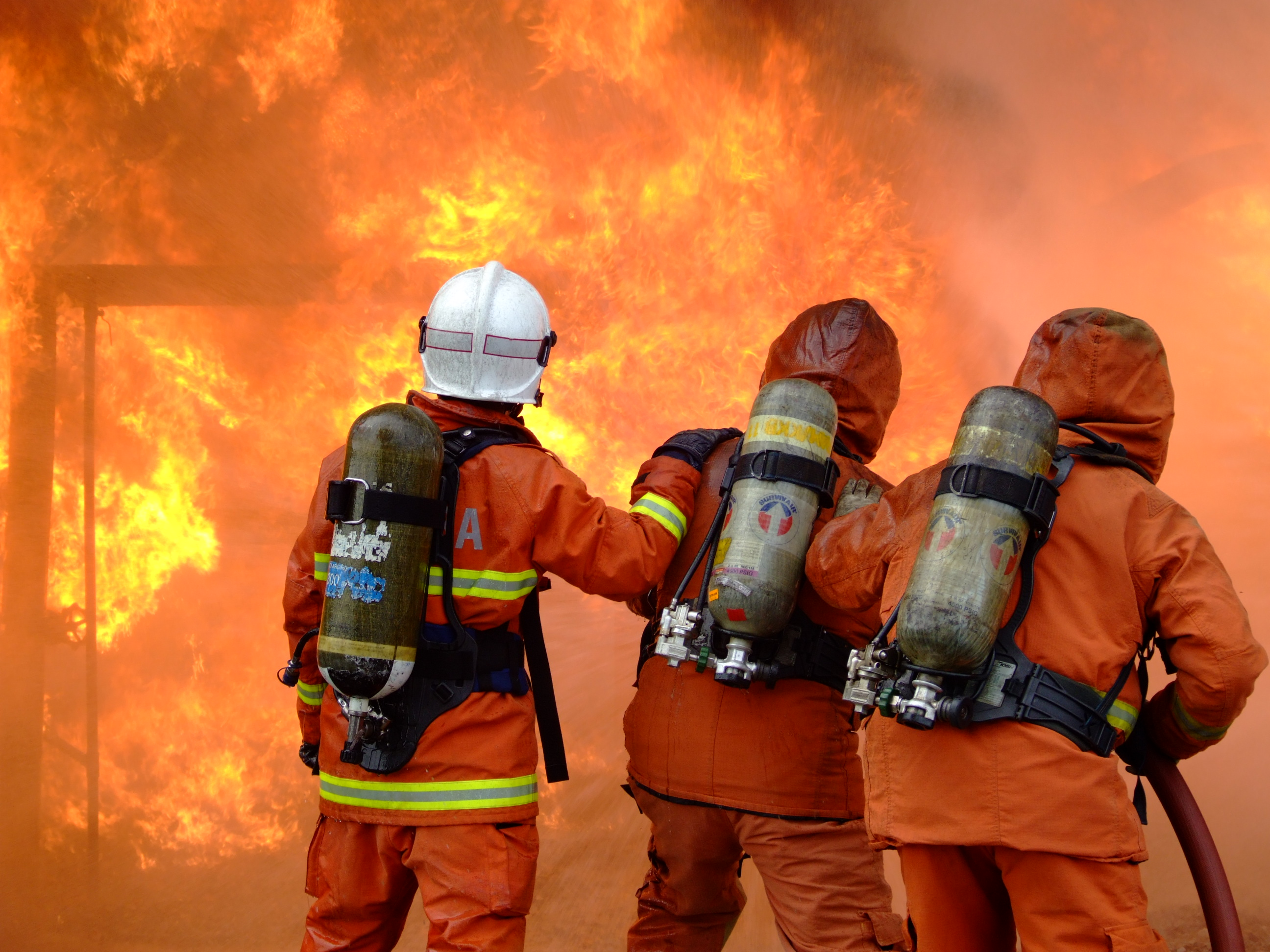 Croatian firefighters training in Fire and Rescue Academy of Malaysia (FRAM).